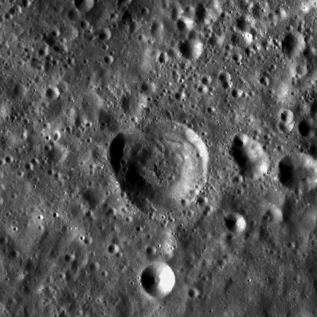 LROC . Leonov lies right on top of Mare Moscoviense basin southern rim ( the floor of which is seen on the upper left sector of the image).